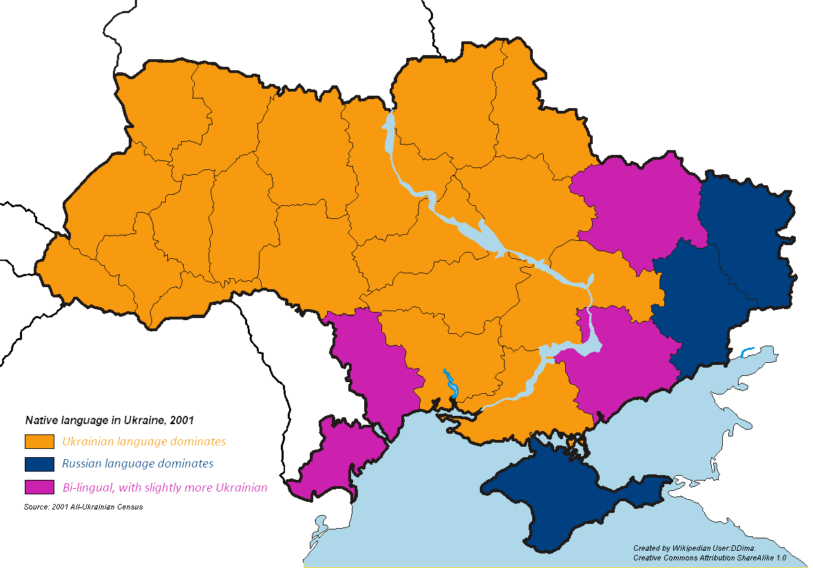 Native language in Ukraine. Legend: Ukrainian language dominates as the native language Russian language dominates as the native language. Bi-lingual, with a slight Ukrainian language lead